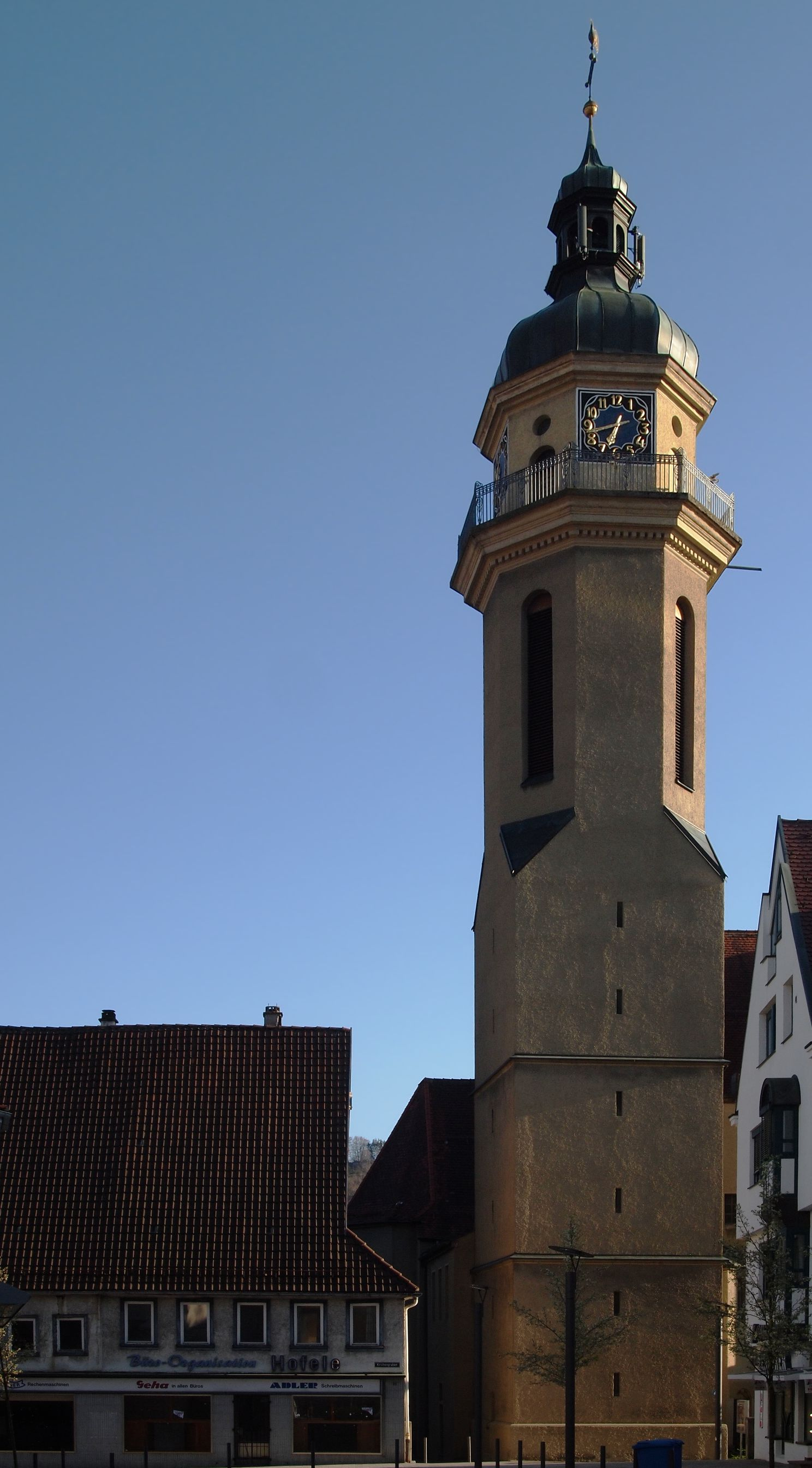 Martin's church in Albstadt-Ebingen, Germany. The tower from 1670 is integrated in the 1906 building.